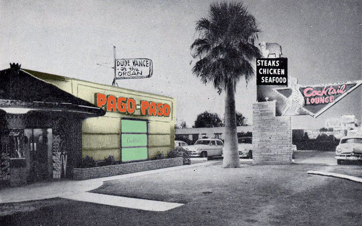 Pago Pago Restaurant and Lounge, Tucson, Arizona, 1945